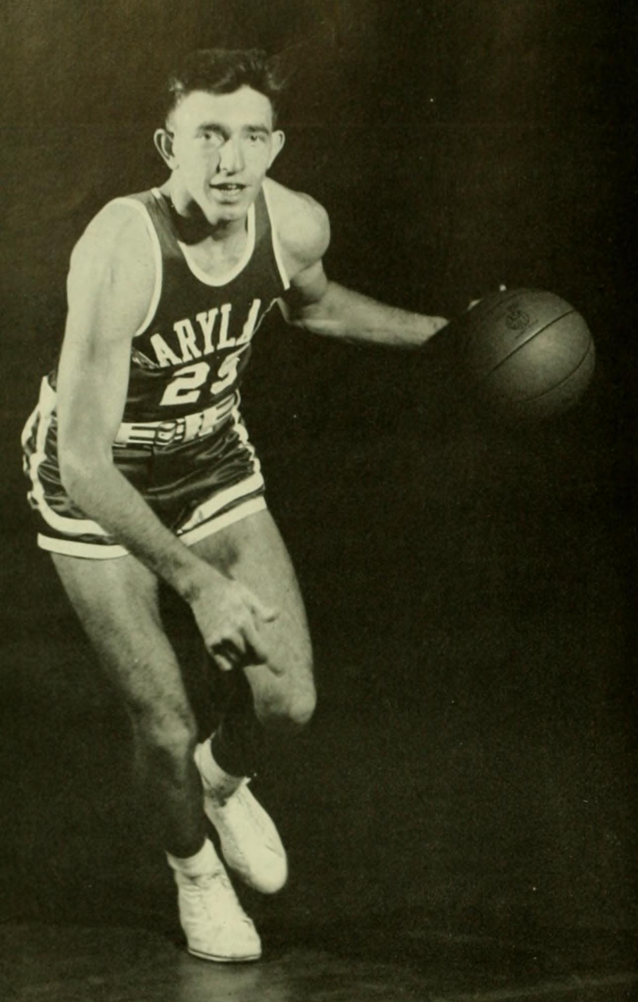 Gene Shue while at the University of Maryland